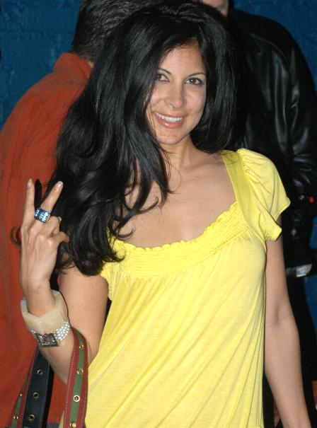 April 5 2007: XRCO Awards 2007.